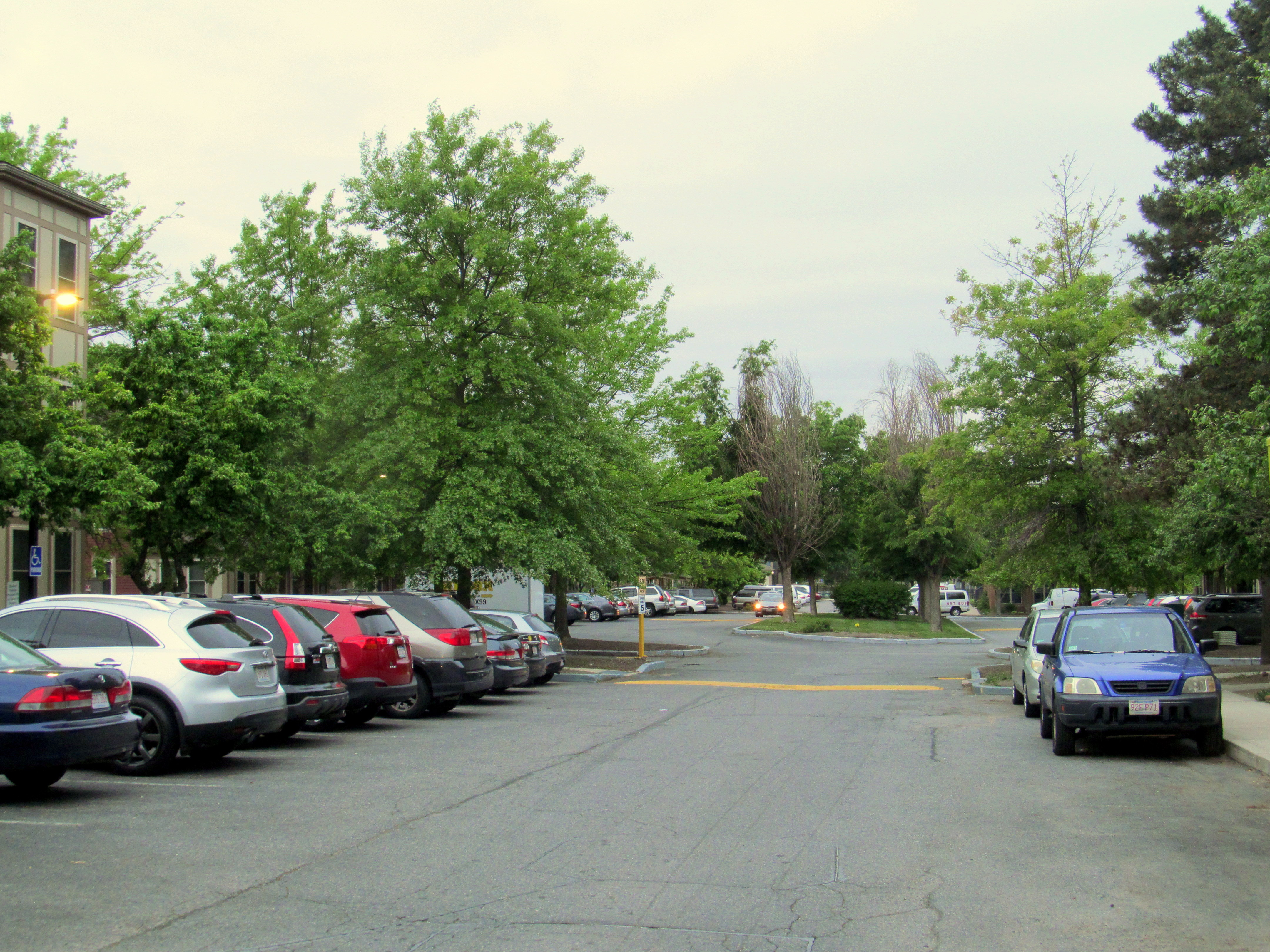 Camella Teoli Way in Lawrence, Massachusetts in May 2017. The street was named after Camella Teoli, a mill worker whose testimony before Congress at age 14 led to sympathy for striking workers during the Great Lawrence Textile Strike and the eventual passage of child labor laws.